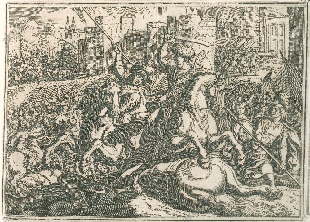 Battle near Cairo on 22 January 1517. Sultan Selim I captures Cairo. Tuman Beis’s flight Copperengraving by Matthäus Merian t. E. (1593–1650). From: Johann Ludwig Gottfried, Historische Chronica, Frankfurt a. M. (M.Merian) 1630, p. 741. Berlin, Sammlung Archiv für Kunst und Geschichte.